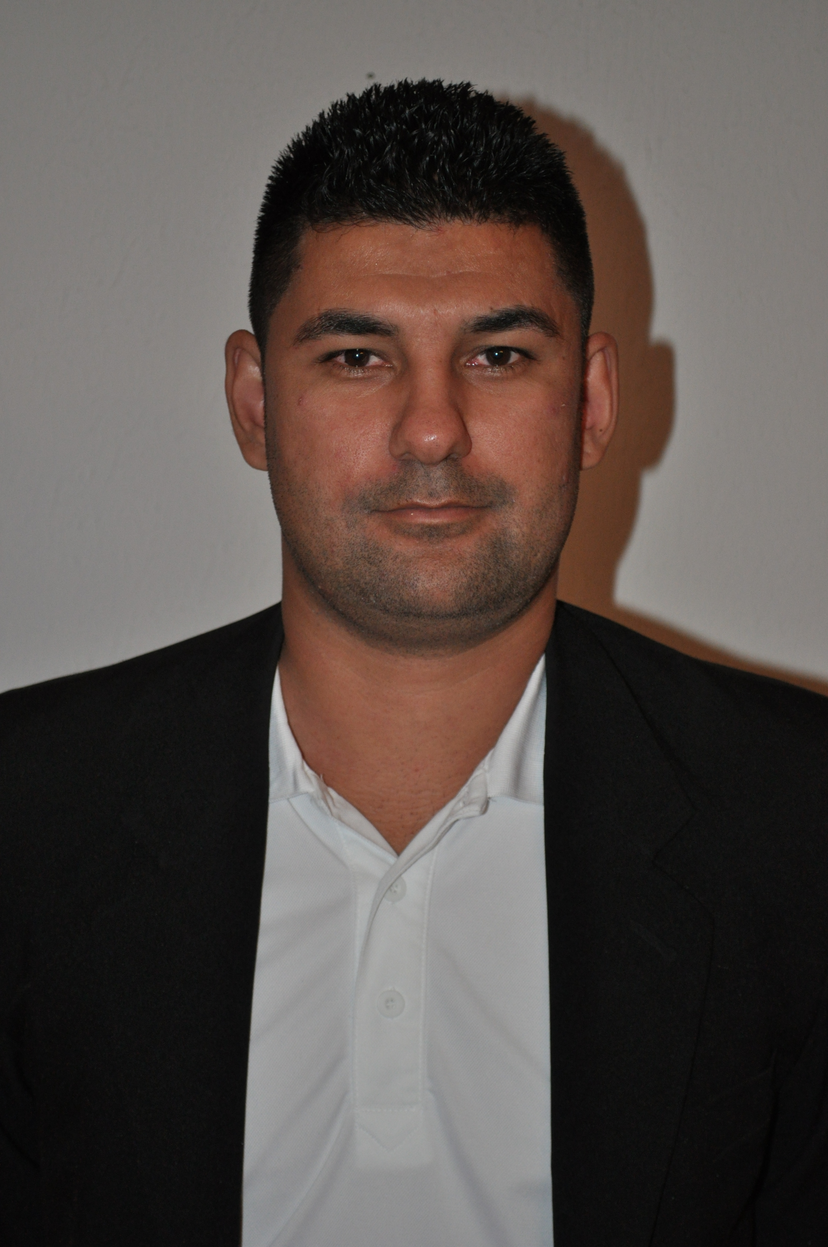 Peter Falk, professional soccer player